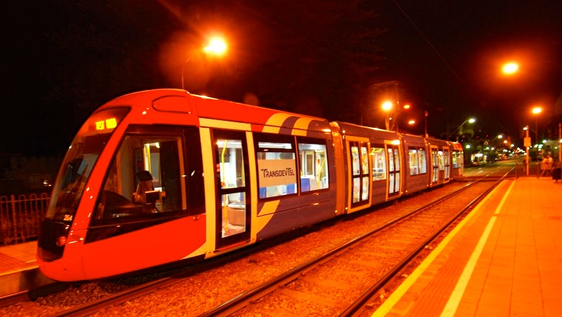 Former Madrid Citadis tram 167 (now renumbered 204 in the Adelaide numbering system) is seen under test in the very early hours of the morning on Tuesday, 17 November 2009. The location is Brighton Road tram stop, 800 metres short of the terminus of Glenelg.